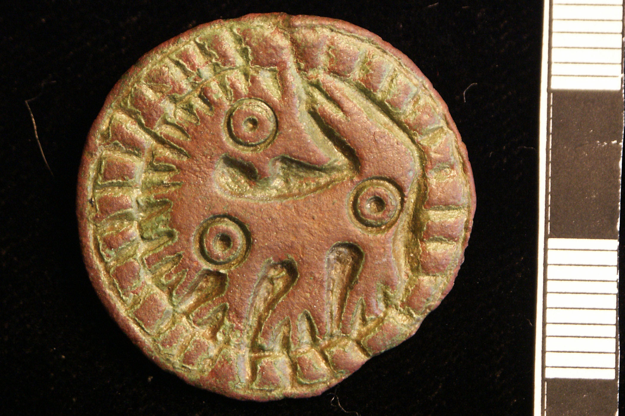 Late Saxon cast copper-alloy disc brooch with backward-looking beast within border of 28 pellets (the most frequently recorded number of pellets on a brooch of this type). The beast has a forked, upturned tail, open jaws and a spiky mane. Ring-and-dot eye, single ring-and-dots on beast's breast and haunches. The beast has four legs, with three toes on each, although the foot furthest to the left is indistinguishable from the spikes of the mane. On the reverse are the remains of a pin lug positioned directly behind the beast's head. A small raised rectangular area indicates the position of the catchplate. This example is in very good condition, with well-defined decoration. Diameter 27mm. Weight 5.9g. Backward turning animal brooches are thought to date to the late Saxon period, probably from the early tenth century onwards. The type is characteristic of East Anglia but are also found in Lincolnshire. This example is the eighth in a series of mould-identical backward turning animal brooches found in Norfolk, with other examples known from Hillington (HER 20176), Forncett (HER 24658), Mundham (HER 24894), Elsing (HER 28643), Hevingham (HER 29292), Salle (HER 30429) and Thompson (HER 39736).